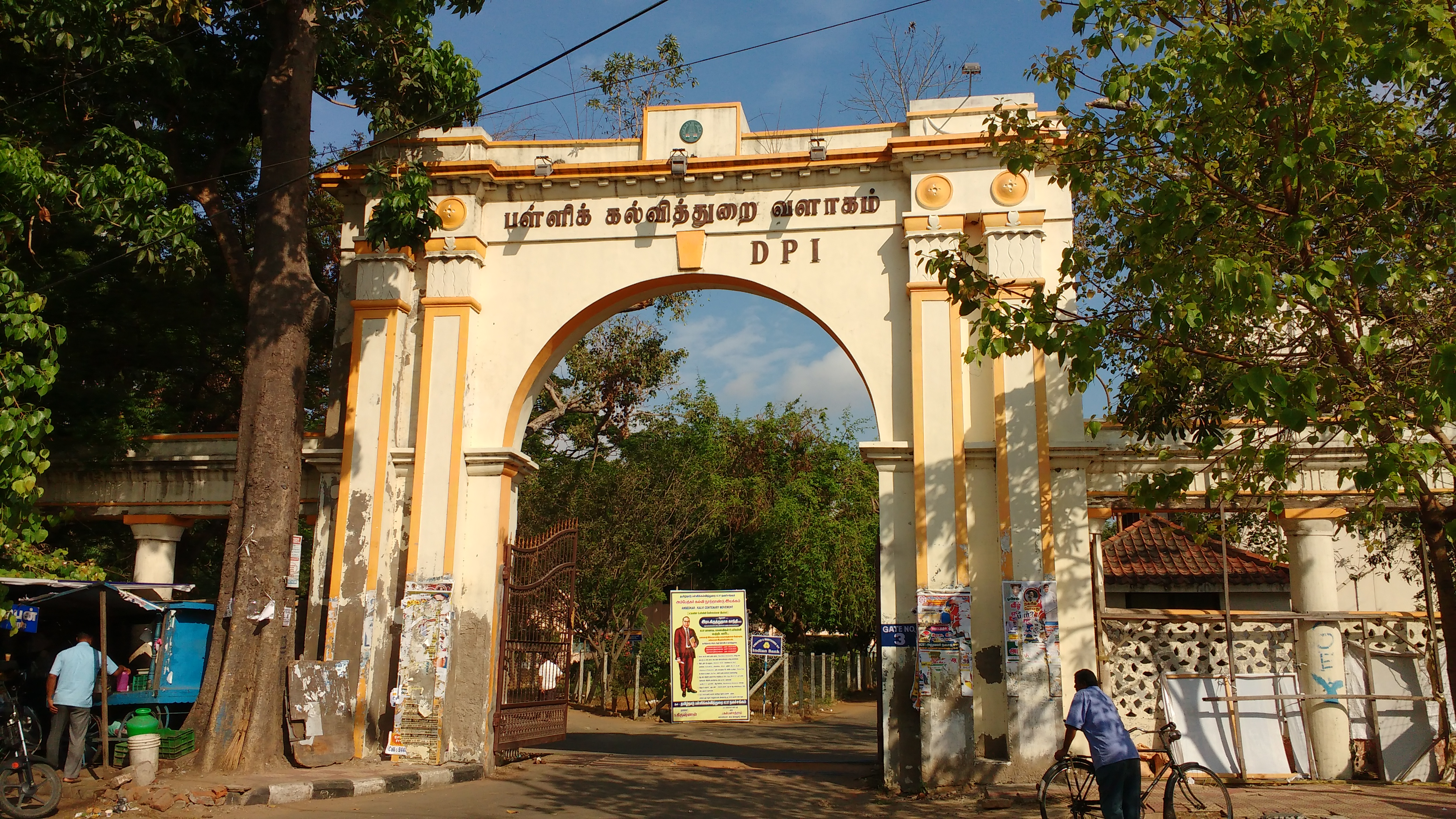 Directorate of School Education Chennai